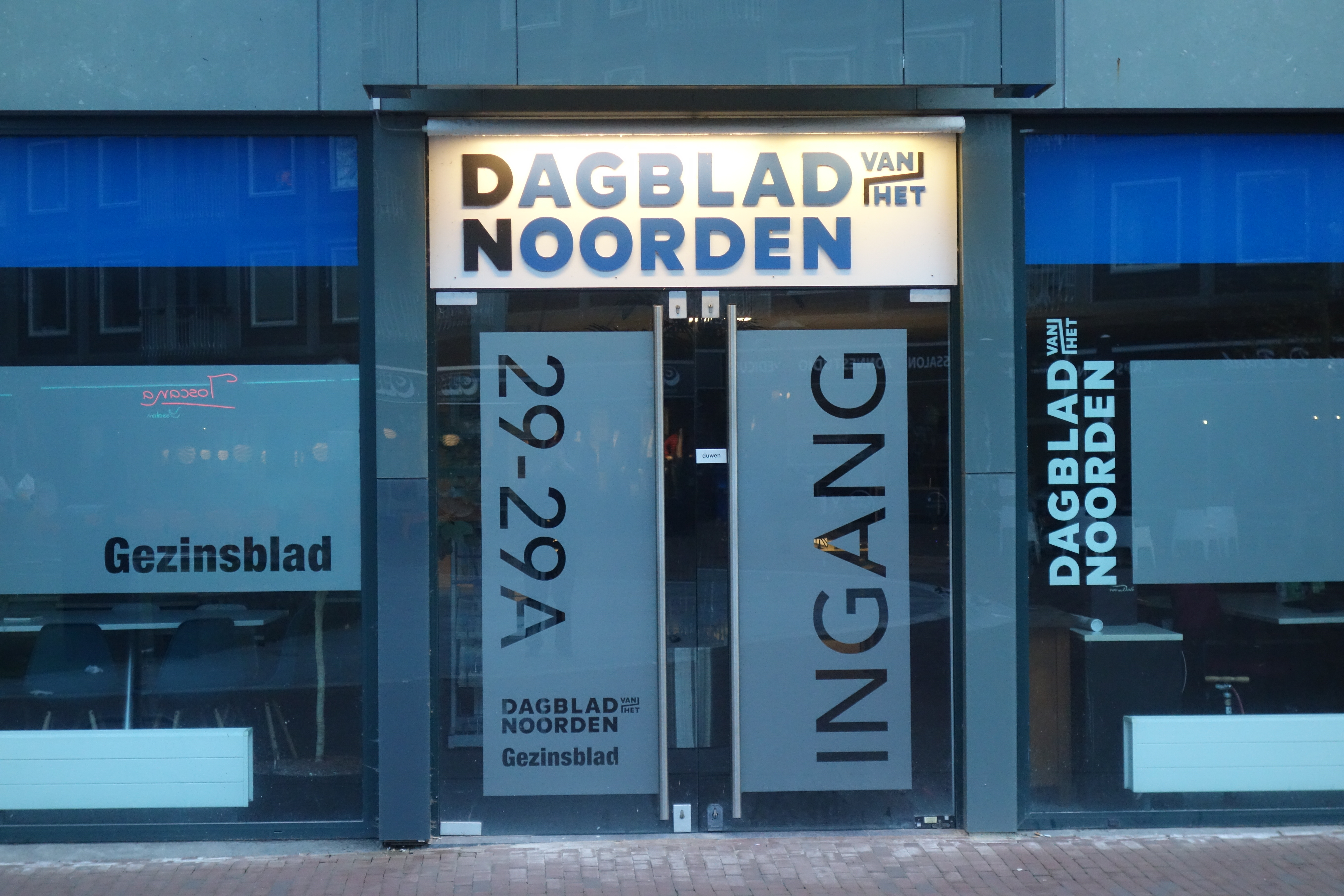 Daily newspaper Dagblad van het Noorden, Brink 29-29a, 9401 HT Assen (the Netherlands)